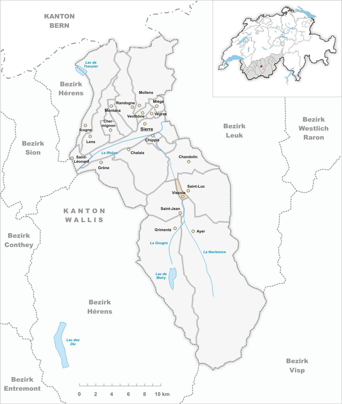 Municipality Vissoie